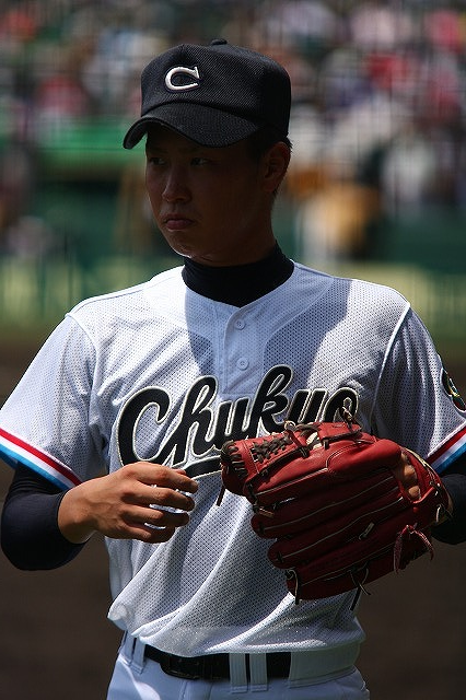 Shota Dobayashi, pitcher of the Chukyodai Chukyo High School, at Hanshin Koshien Stadium.